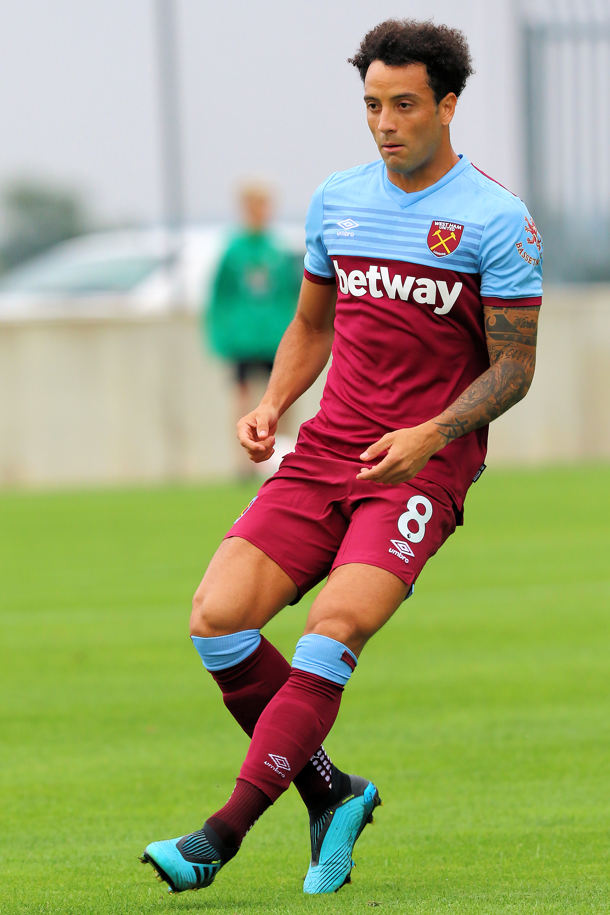 Friendly match Hertha BSC (blue-white shirts) vs. West Ham United (red-blue shirts) at 31-07-2019 3-5 (3-2) in the Sonnenseestadium in Ritzing. – The photo shpws Felipe Anderson (West Ham United).